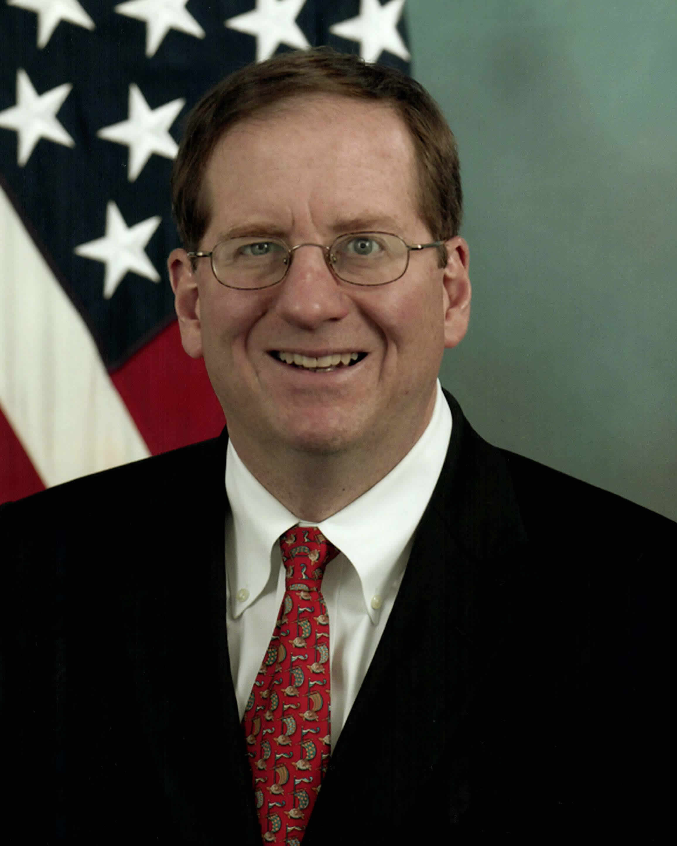 Original caption: "Paul M. Lewis is the Department of Defense Special Envoy for Guantanamo Detention Closure. The office of Special Envoy was established by President Obama and Mr. Lewis was appointed to his position by Secretary of Defense Chuck Hagel. He began service on November 4, 2013."